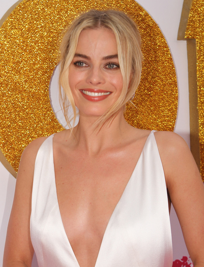 SYDNEY, AUSTRALIA - JANUARY 23 Margot Robbie arrives at the Australian Premiere of 'I, Tonya' on January 23, 2018 in Sydney, Australia photo by Eva Rinaldi